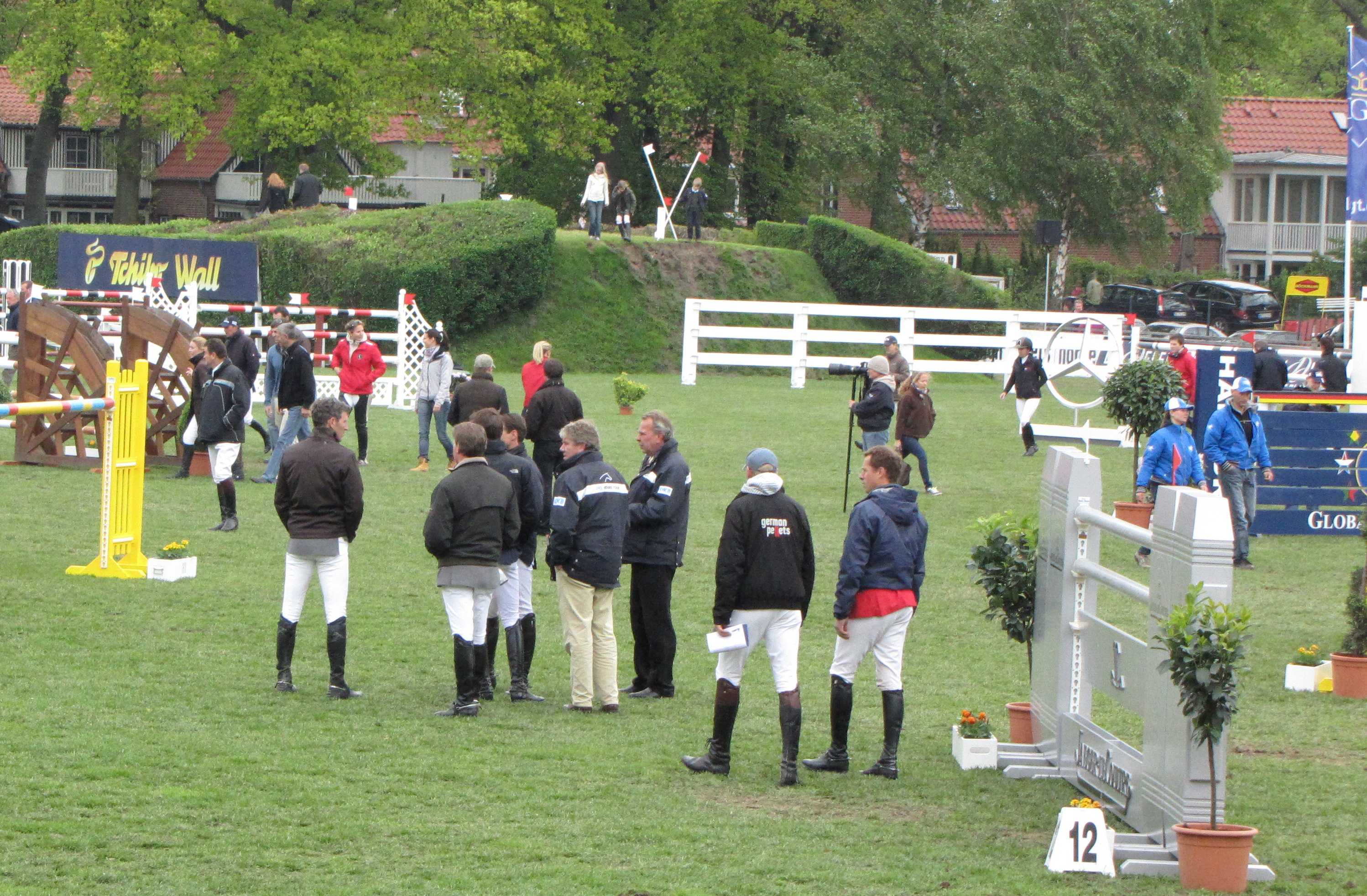 International Horse Show Hamburger Derby 2010 course inspection